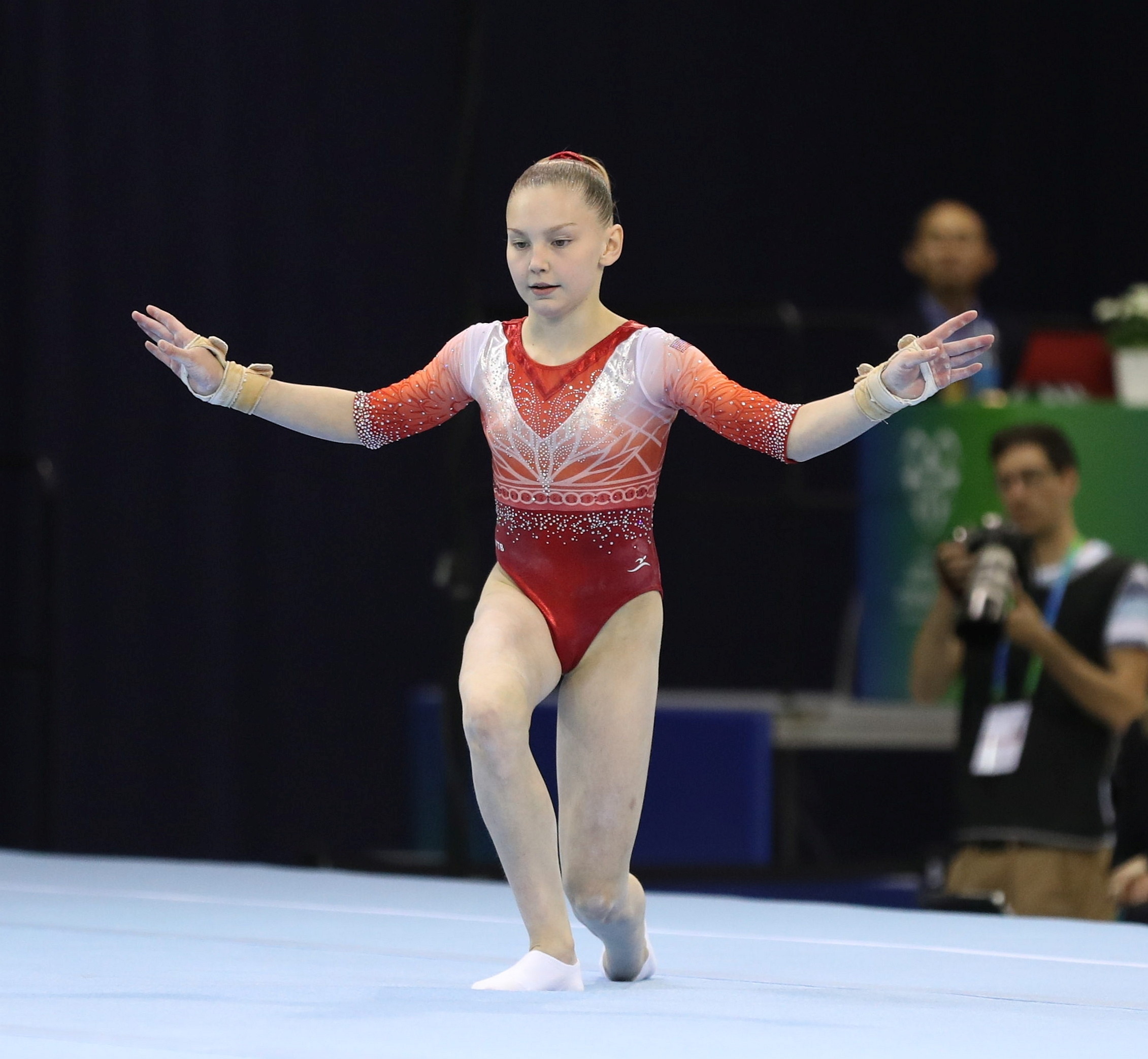 Floor exercise of subdivision 2 during the girls' all-around competition at the 1st FIG Artistic Gymnastics Junior World Championships on 28 June 2019 in Győr, Hungary. Depicted: Elena Gerasimova.